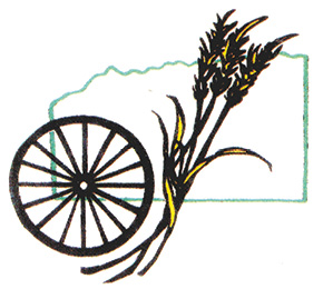 Flag of Washington County, Illinois, USA